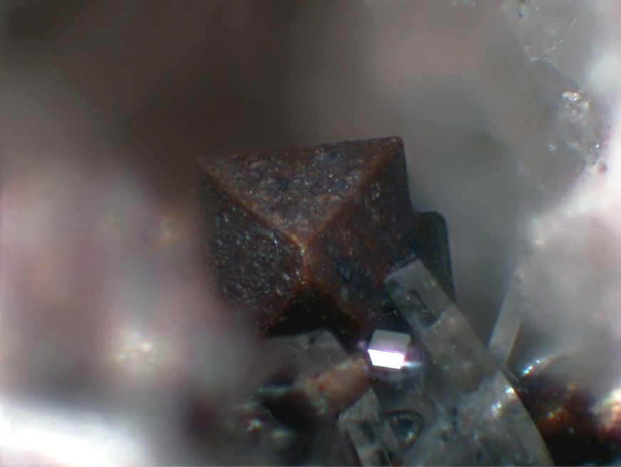 Hercynite (spinel size: 0,5 x 0,5 mm) Locality: Wannenköpfe, Ochtendung, Polch, Eifel, Rhineland-Palatinate, Germany Original description: Very exceptional, and new for the Wannenköpfe, a Spinel (0,5 x 0,5 mm), a mixed crystal (Spinel/Hercynite). Analysed by Günter Blass. Photo/collection: Fred Kruijen.